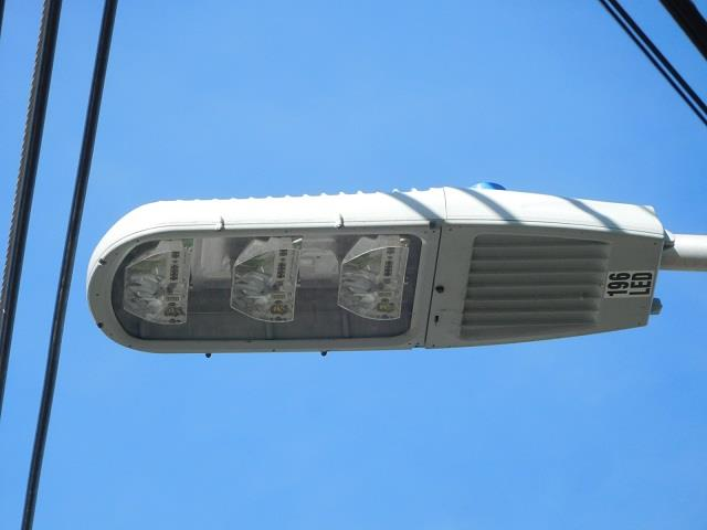 History of street lighting: General Electric Evolve ERS3 Scalable - Gray version found in Stoughton, Massachusetts